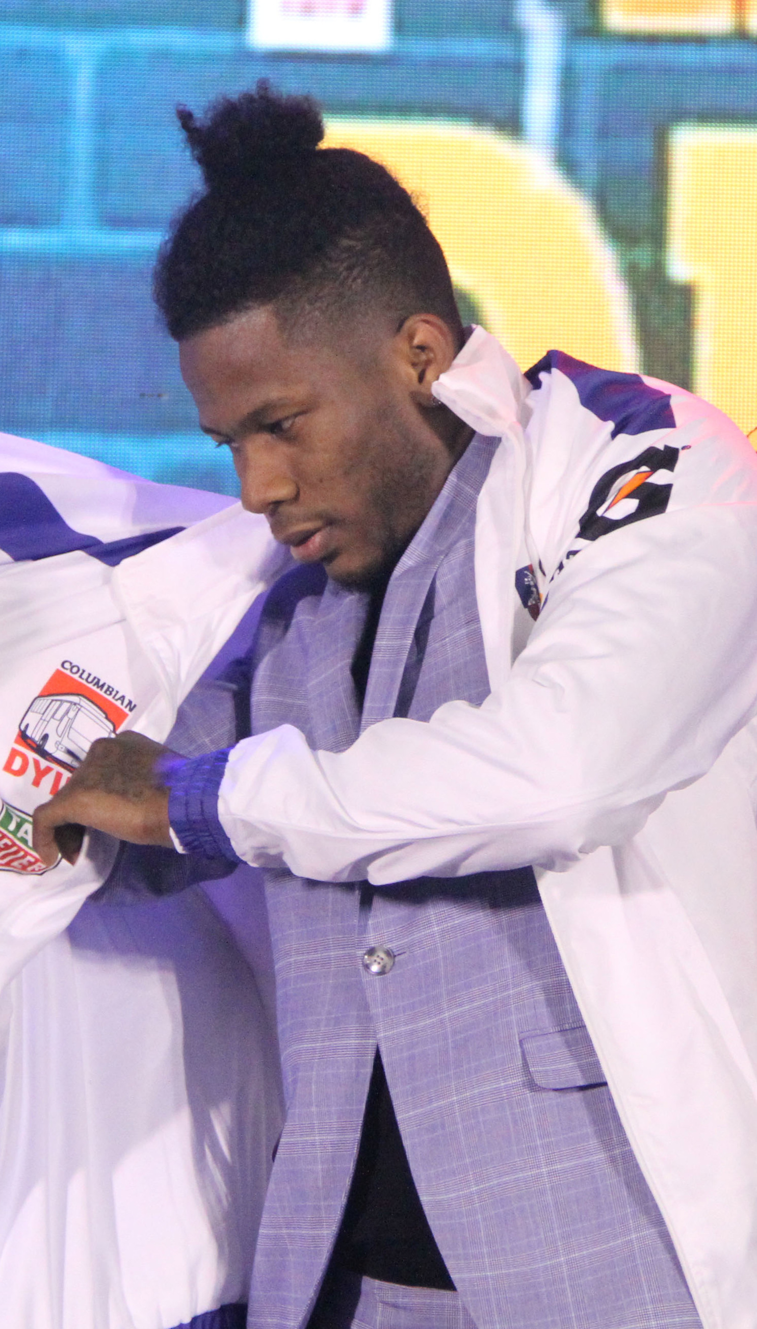 Fil-foreigner CJ Perez receives the Columbian Dyip team jacket during the first round of the 2018 PBA Rookie Draft at the Robinson's Place Manila on Sunday (December 16, 2018)